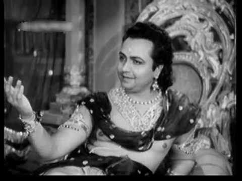 Shahu Modak in the film Veer Ghatotkach (1949).